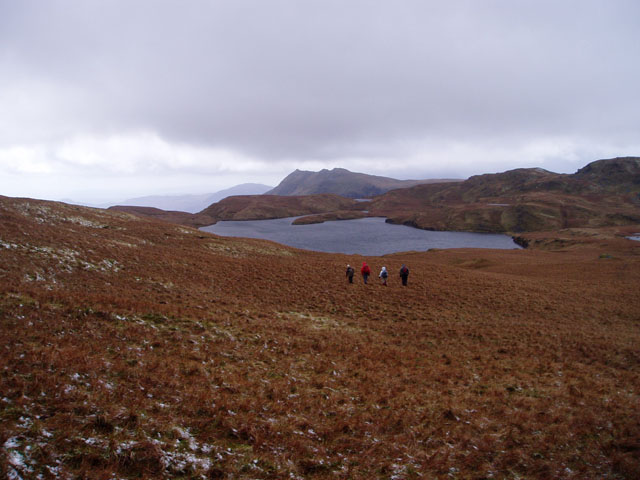 Llyn Conglog Looking down the western slopes of Allt Fawr, with Cnicht in the background.